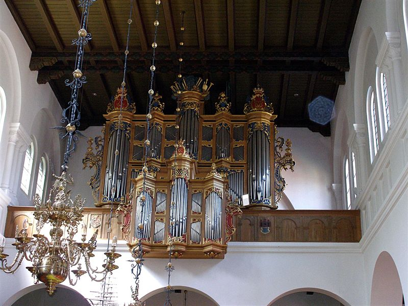 Vor Frue Church in Aalborg Kommune, Denmark. Arch.Johannes Emil Gnudtzmann. Organ with facade from 1749.